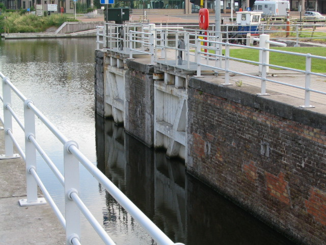 Tidal lock Nieuwpoortsluis on the canal Nieuwpoort-Duinkerke – Veurne, Belgium